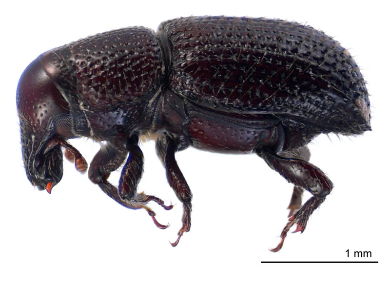 Lateral view of a specimen of Inosomus rufopiceus photographed by Landcare Research New Zealand Ltd.